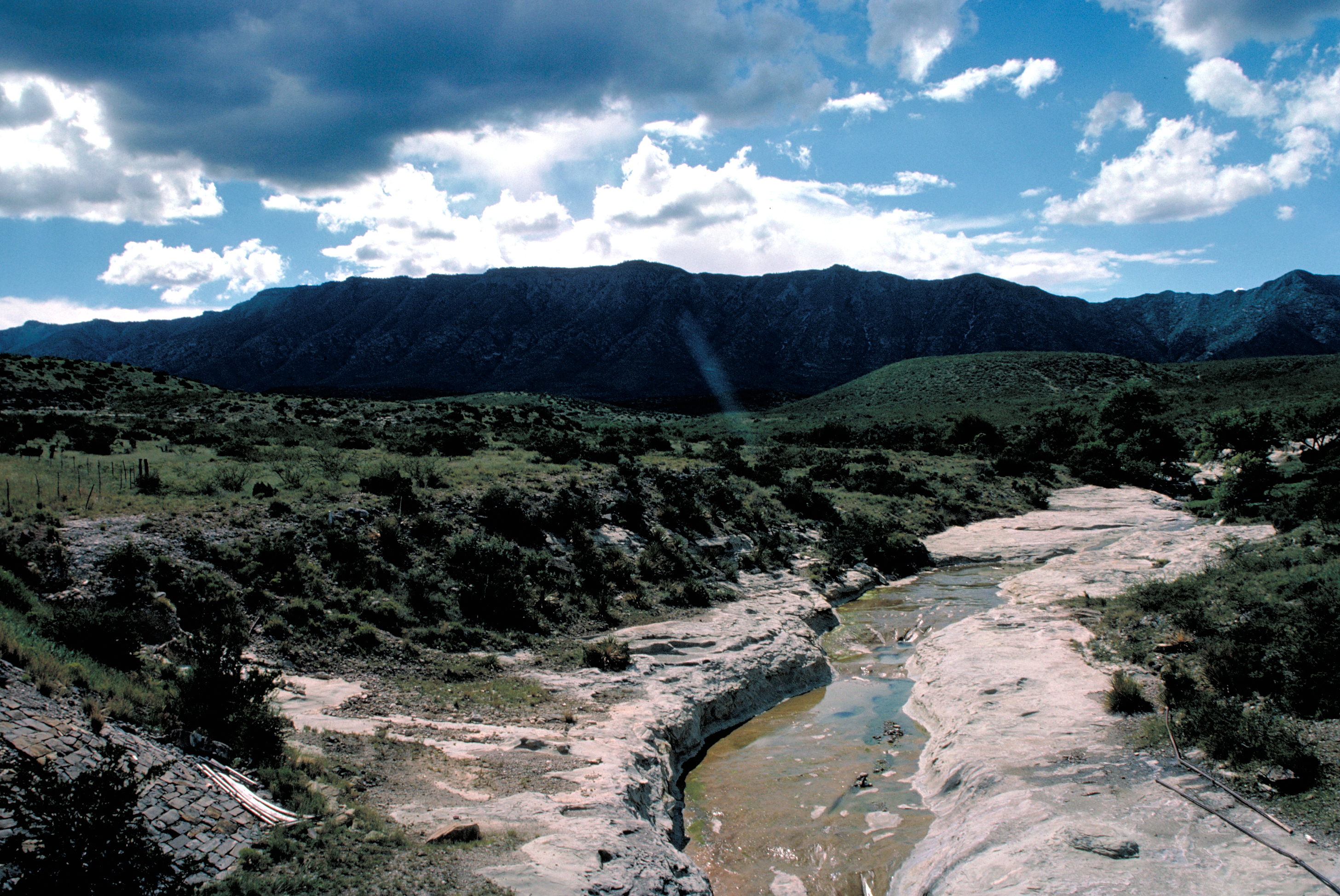 Guadalupe Mountains National Park, Texas.